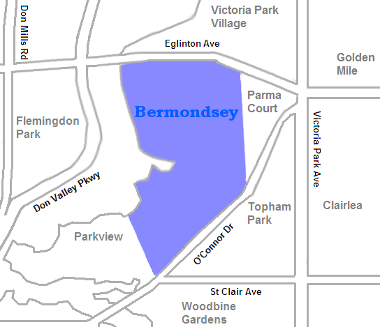 map of Bermondsey, Toronto